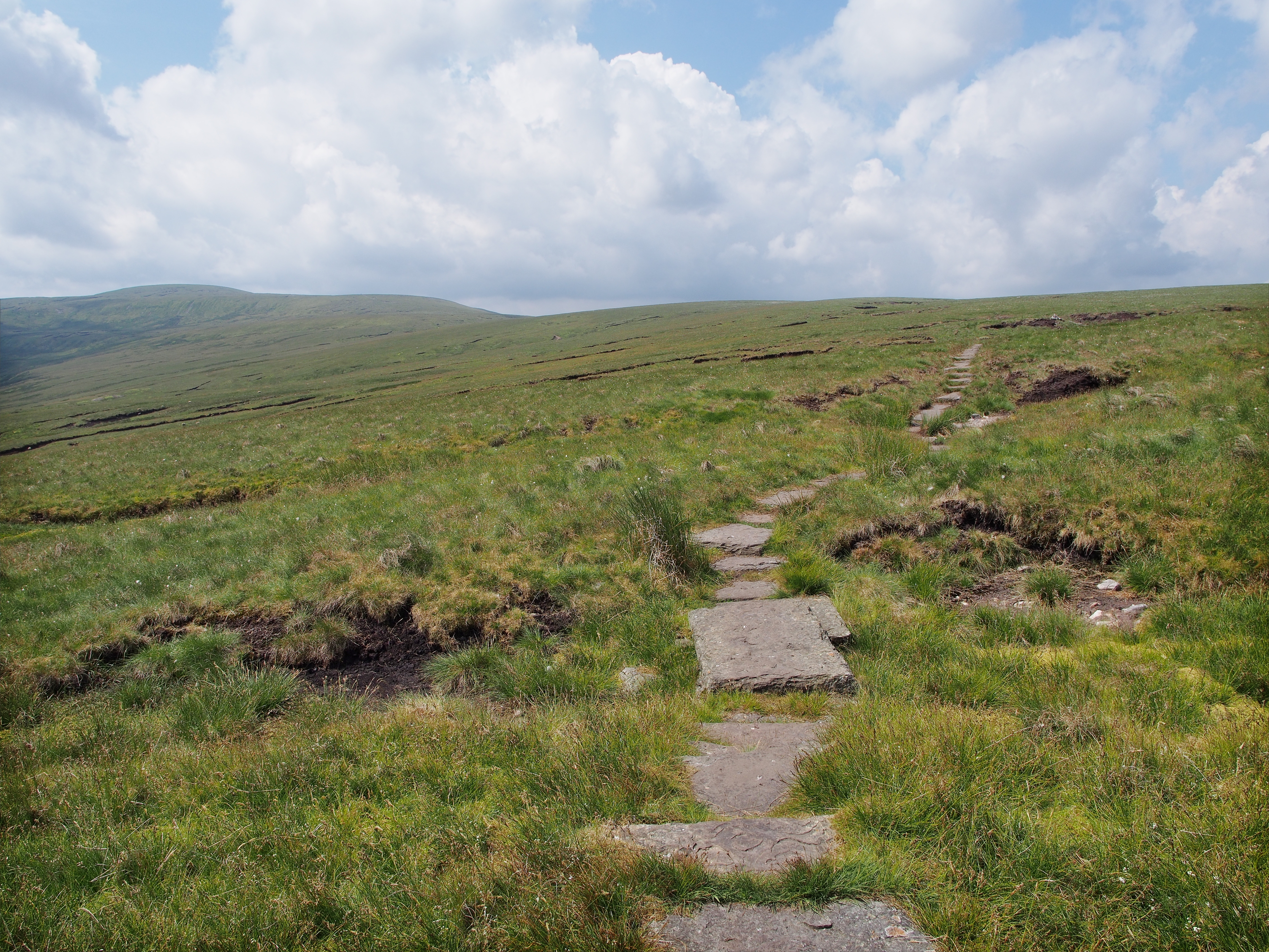 The Pennine Way on the north slope of Great Shunner Fell